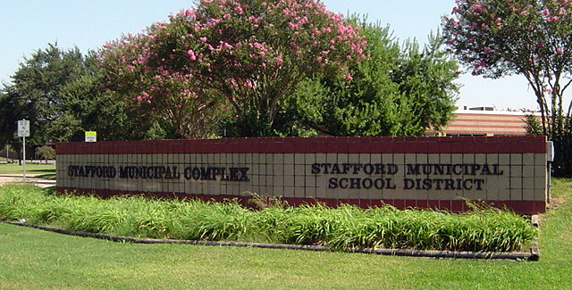 Sign of the Stafford Municipal Complex, which contains the Stafford Municipal School District schools